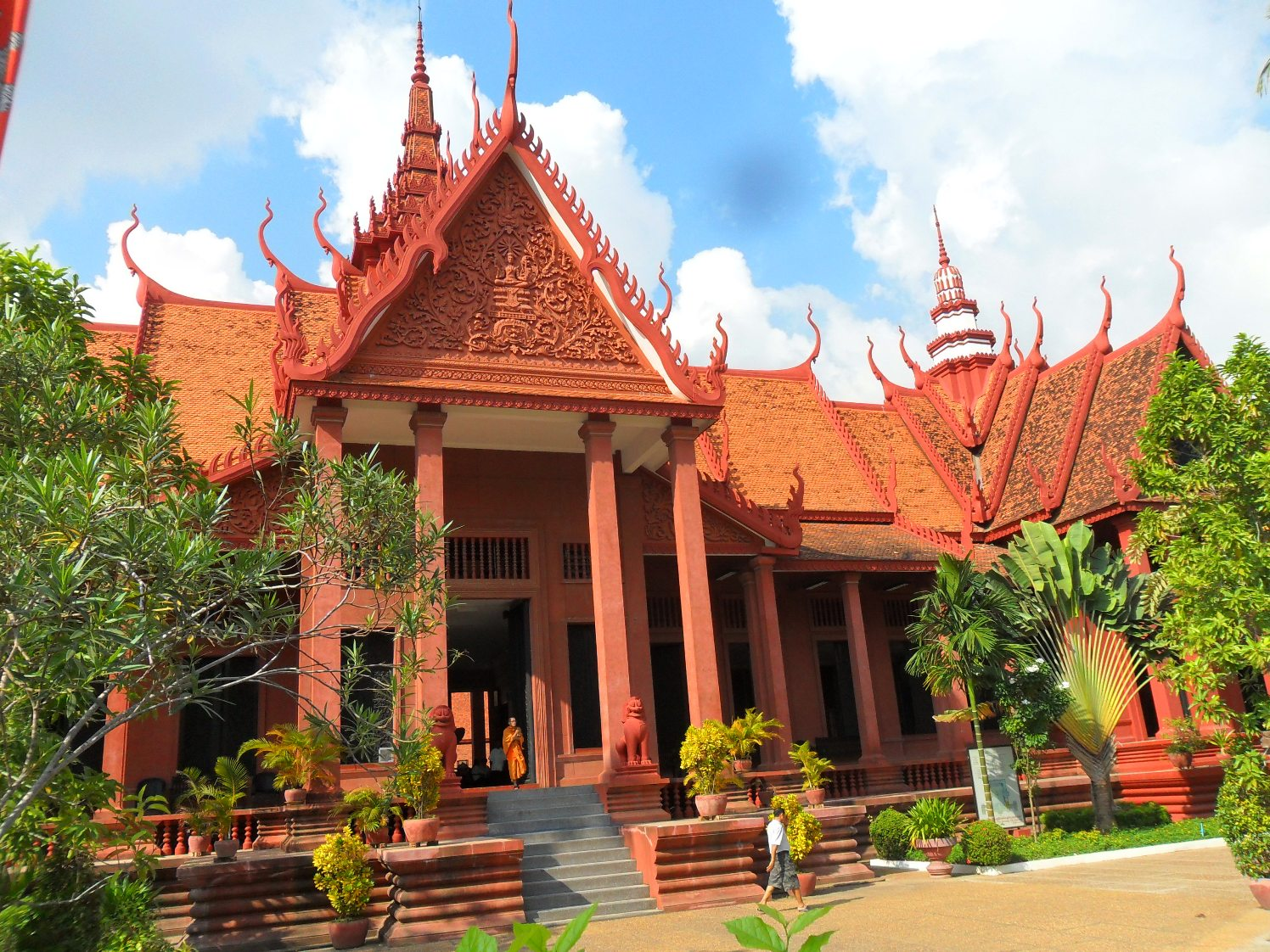 National Museum, Phnom Penh, Cambodia